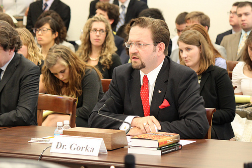 Sebastian Gorka presenting his testimony, "Ten Years On: The Evolution of the Terrorist Threat," to the House Armed Services Committee, Subcommittee on Emerging Threats and Capabilities, June 22, 2011